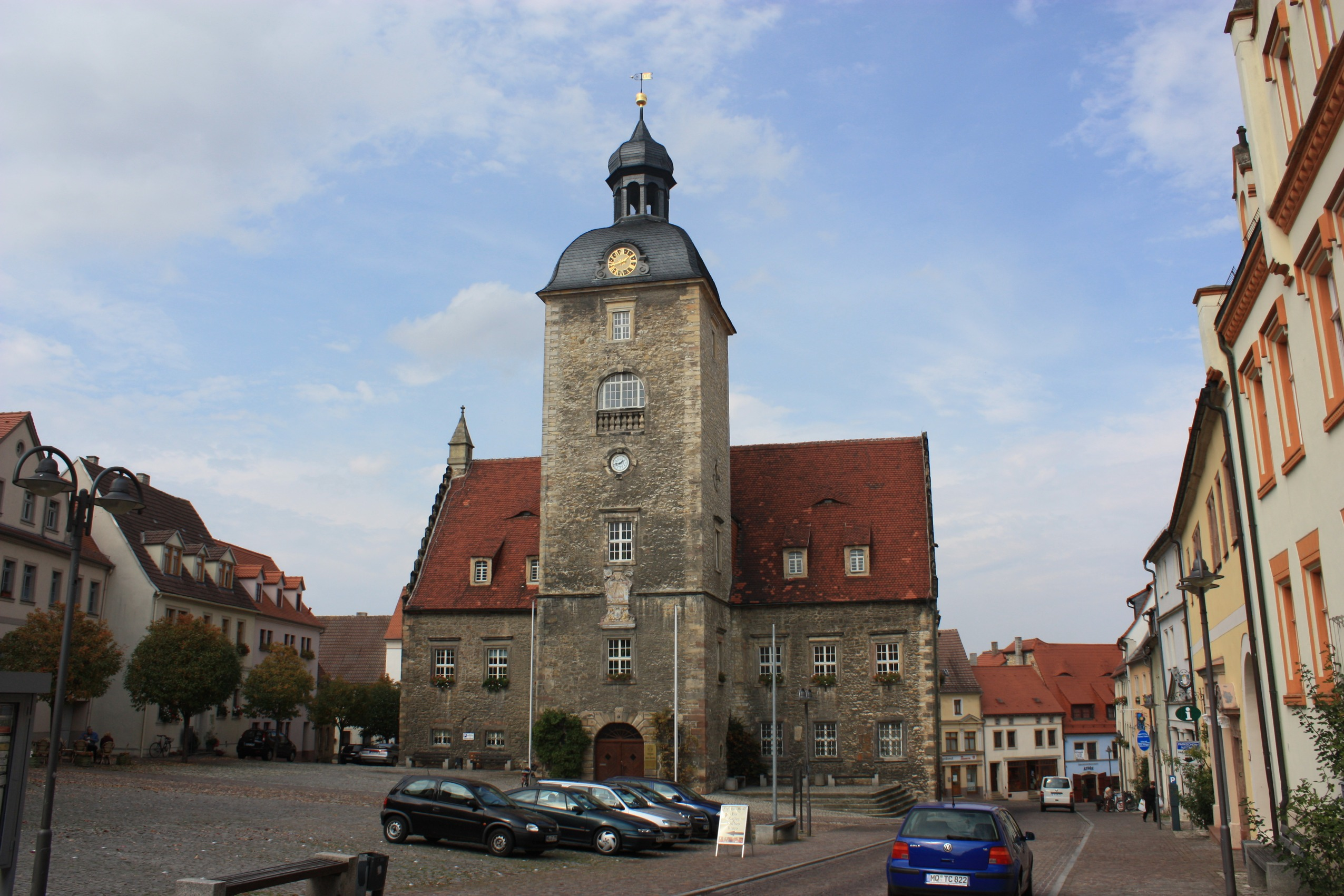 Querfurt, the town hall